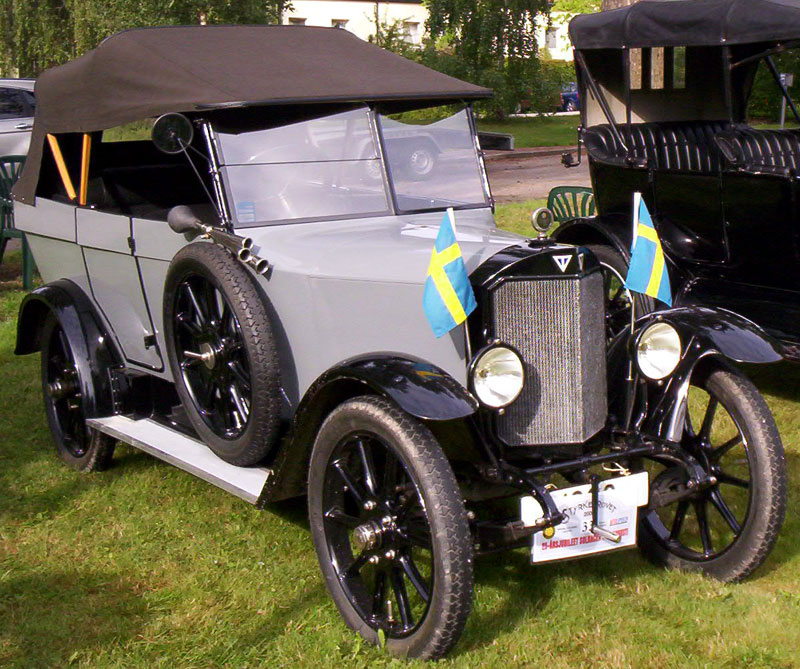 Thulin A20 Phaeton 1920